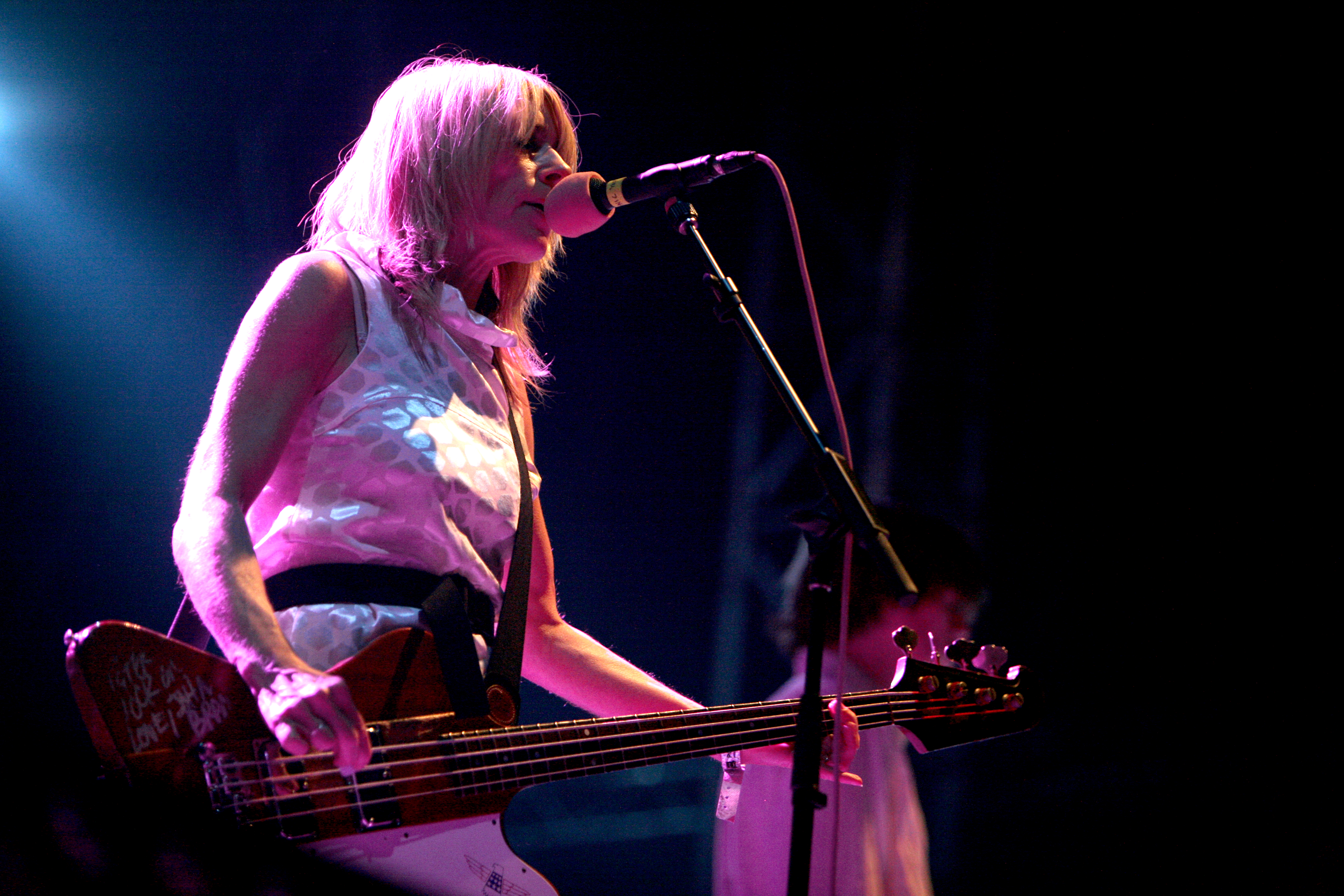 Kim Gordon (Sonic Youth) at Rock en Seine Route du Rock, August 2007